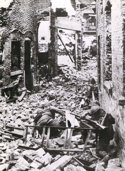 Japanese naval infantry of the Shanghai Special Landing Force fighting in streets near Sanyili, Chapei, Shanghai, 6 October 1937